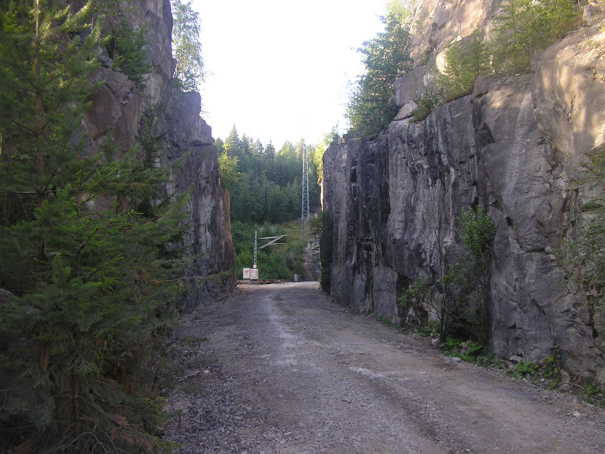 Former layout of Säynätsalo railway just after branching off the Orivesi–Jyväskylä railway in Muurame